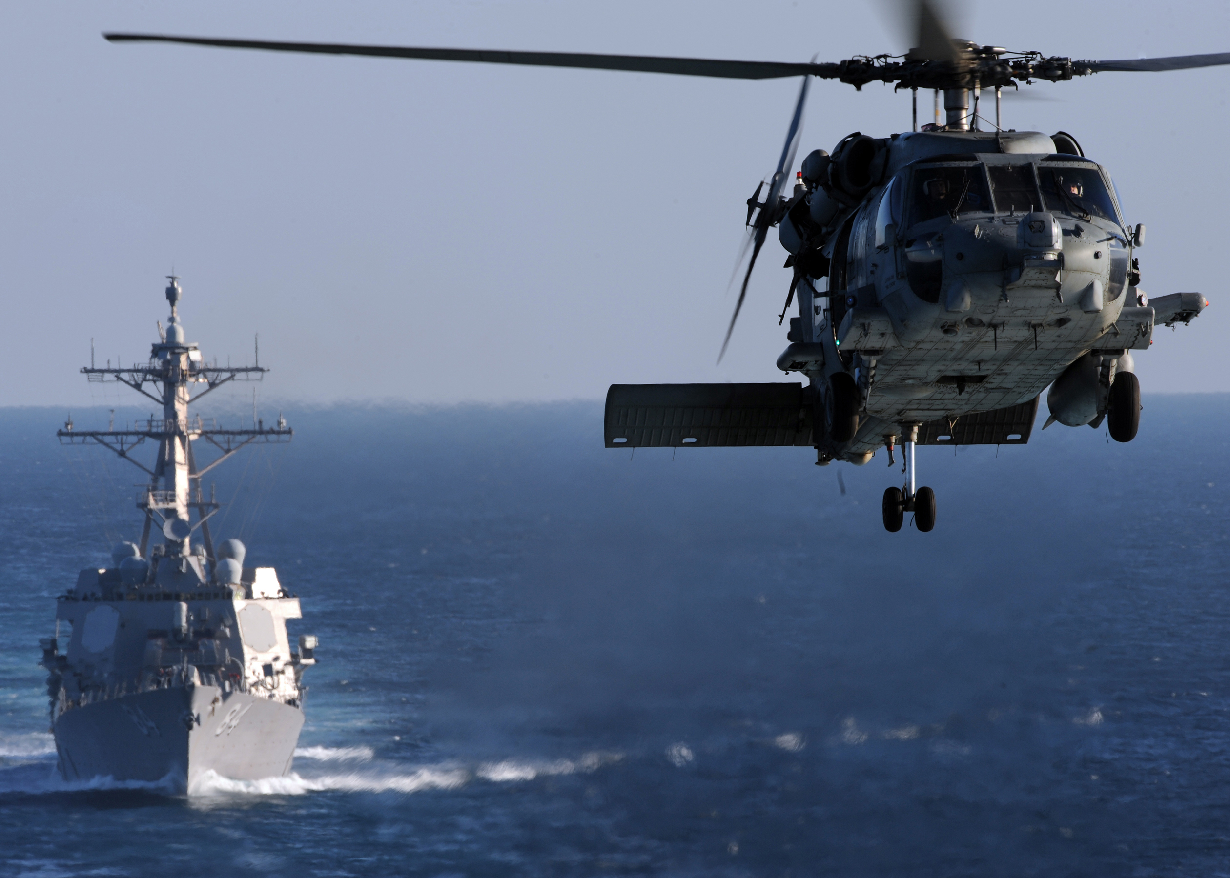 ATLANTIC OCEAN (Oct. 22, 2010) An HH-60H Sea Hawk helicopter assigned to the Dragonslayers of Helicopter Anti-Submarine Squadron (HS) 11 flies past the Arleigh Burke-class guided-missile destroyer USS Bulkeley (DDG 84) before landing aboard the aircraft carrier USS Enterprise (CVN 65) during a strait transit exercise. The Enterprise Carrier Strike Group is conducting a Composite Training Unit Exercise in preparation for an upcoming deployment. (U.S. Navy photo by Mass Communication Specialist Seaman Peter D. Melkus/Released)